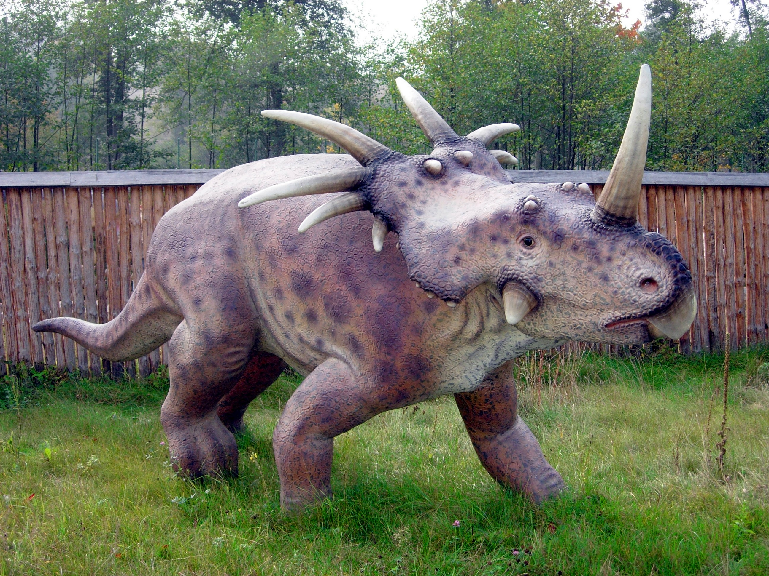 Model of Styracosaurus in Bałtow Jurassic Park, Bałtów, Poland